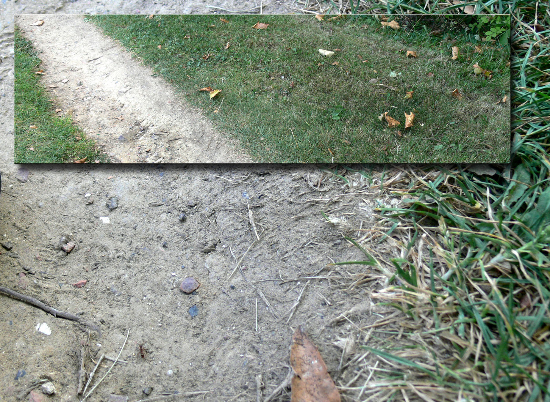 Impact of overcrowding on area grassed area (repeated passage of bicycles and joggers), in a large green area of the city of Lille (Northern France).